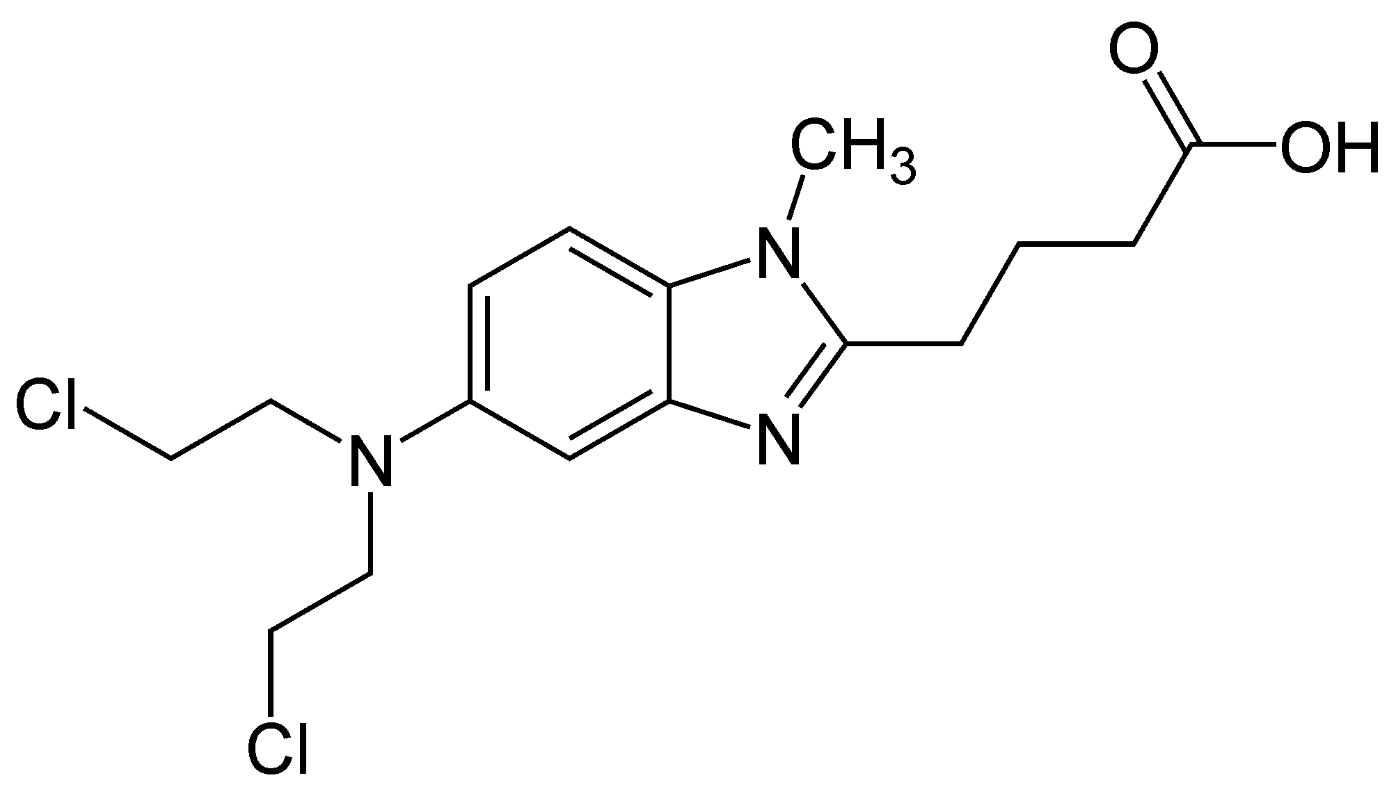 chemical structure of bendamustine